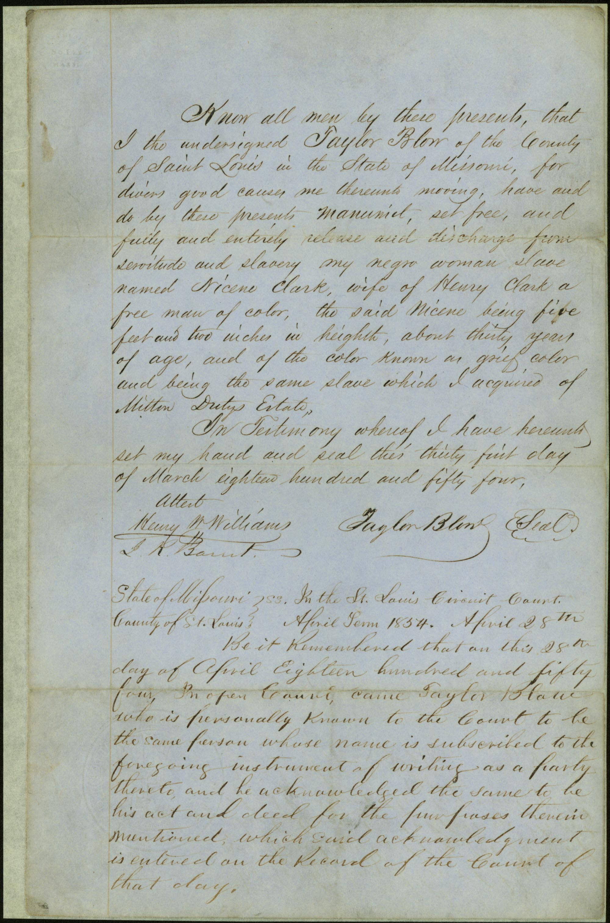 Frees a 30-year-old Negro slave woman named Nicene Clark, wife of Henry Clark. Witnesses, Henry W. Williams and J. R. Barret. Taylor Blow had acquired the slave from the estate of Milton Duty. Includes acknowledgment of the deed by Taylor Blow, recorded in the St. Louis Circuit Court by William J. Hammond, clerk.Title: Deed of manumission signed Taylor Blow of St. Louis County, Missouri, March 31, 1854